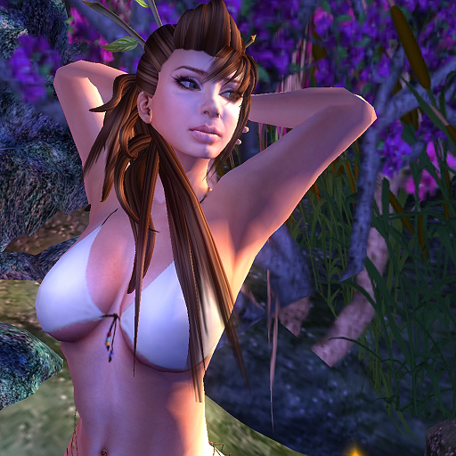 Second Life Girl